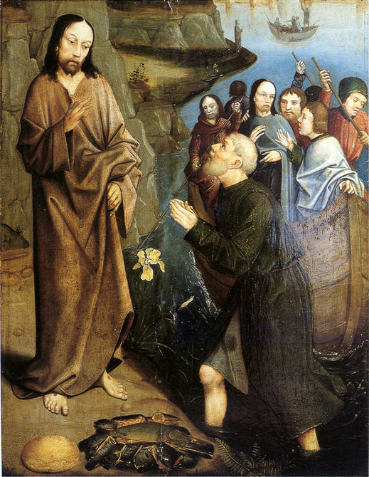 Third Appearance of Christ